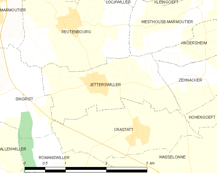 Map of French municipality